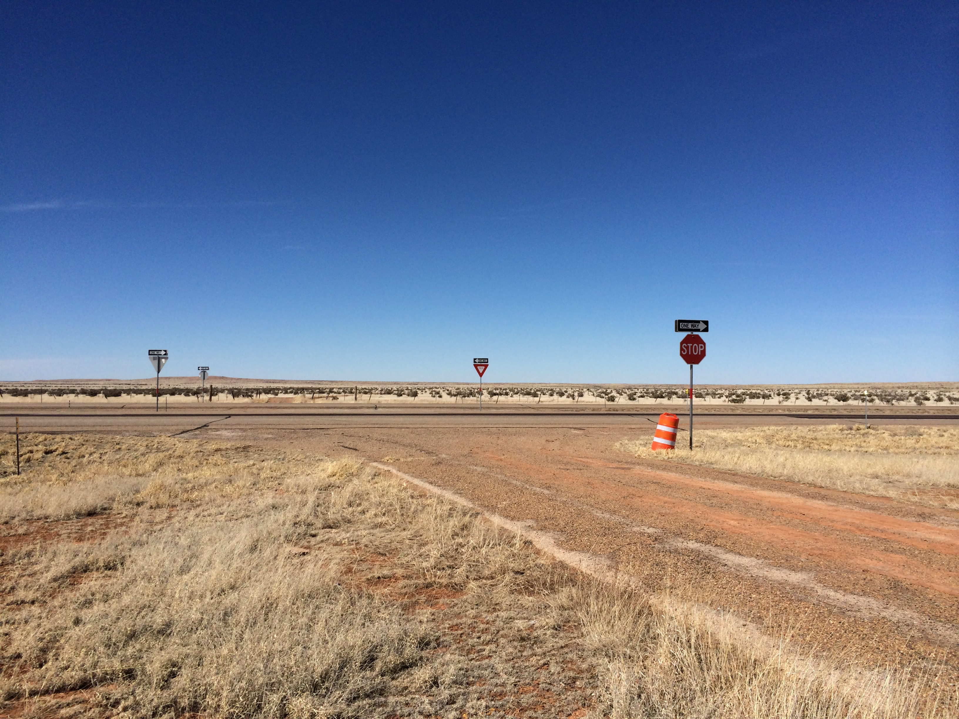 At grade intersection on Interstate 40 near mile marker 8 in far west Texas.